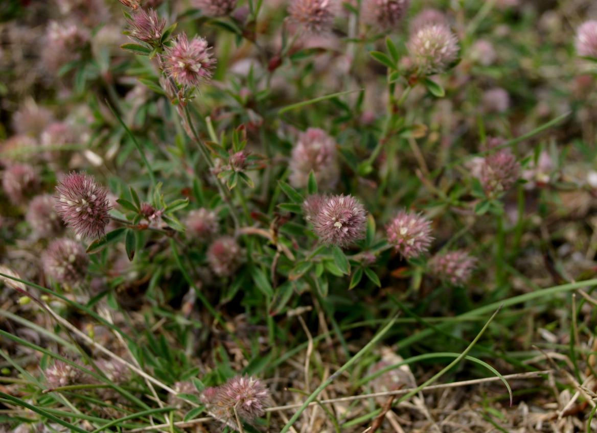 Trifolium arvense: Flowers and foliage